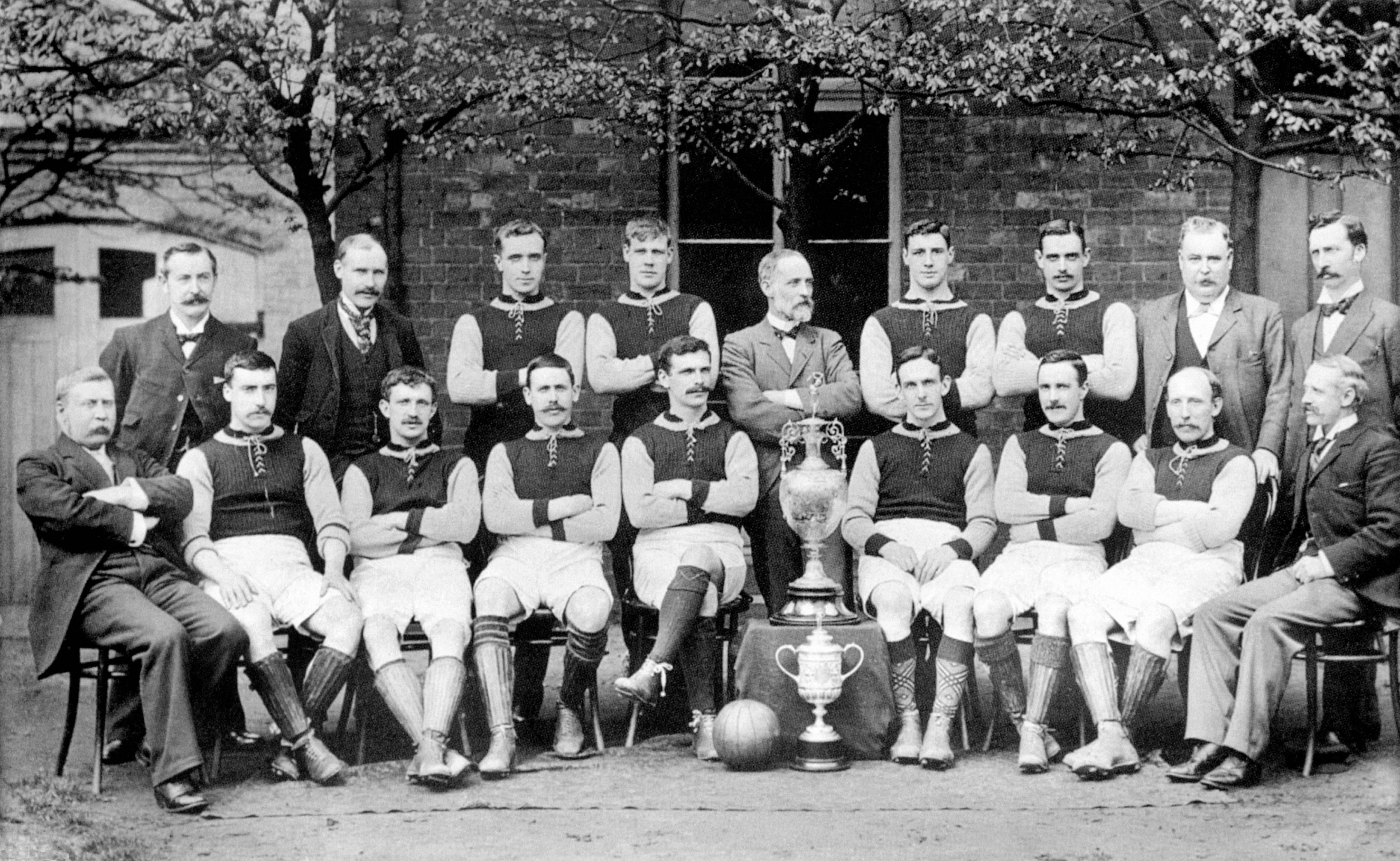 Aston Villa F.C. team photographed in 1897, after winning both the Football League and the FA Cup. Back row: George Ramsay (secretary), Joe Grierson (trainer), Howard Spencer, Jimmy Whitehouse, Joshua Margoschis (chairman), Albert Evans, Jimmy Crabtree, James Lees (director), C. Johnstone (director). Front row: Dr Victor Jones (director), James Cowan, Charlie Athersmith, Johnny Campbell, John Devey (captain), Fred Wheldon, John Cowan, John Reynolds, Frederick Rinder (director).